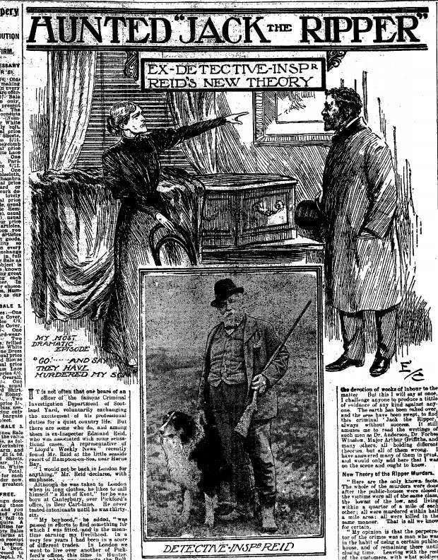 Photograph of Edmund Reid (1846-1917)